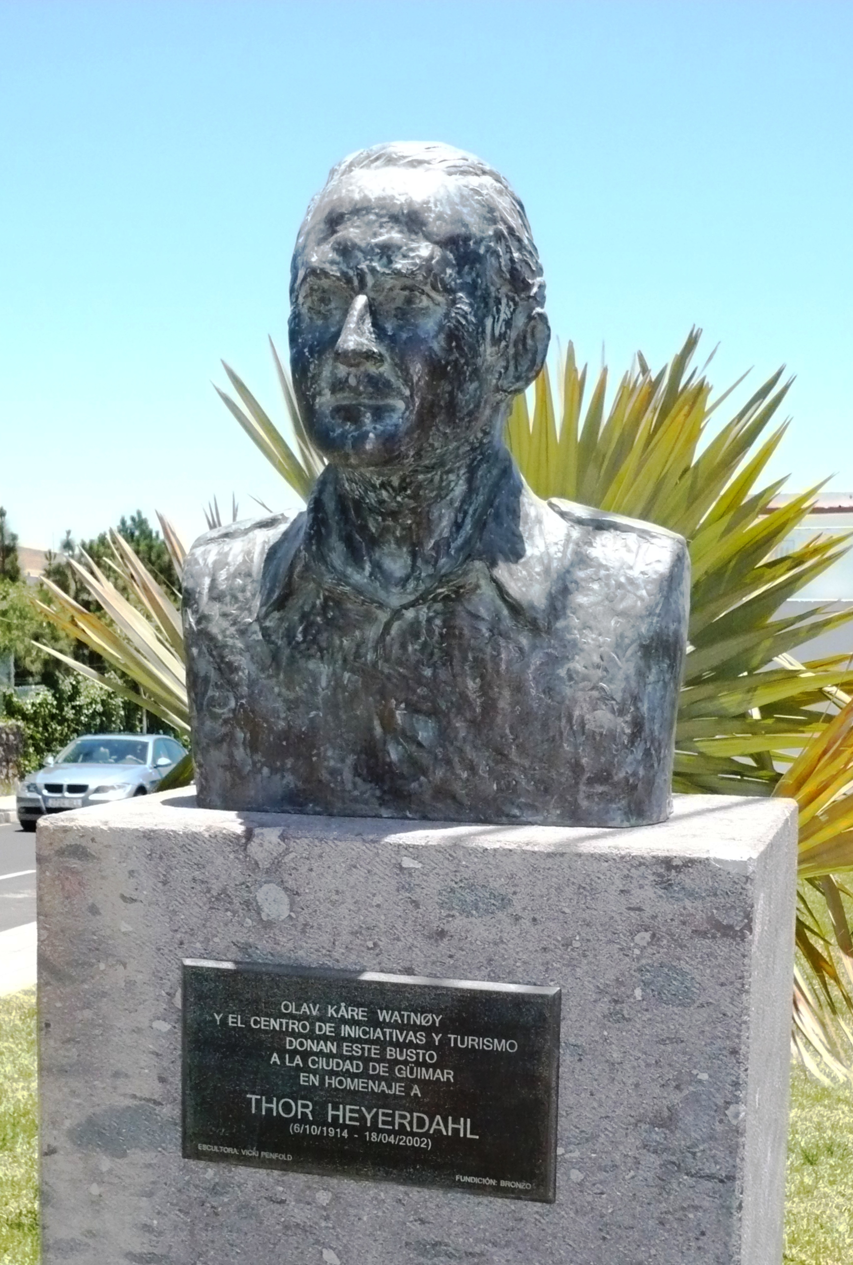 Bust of Thor Heyerdahl. Guimar, Tenerife. Near the Pyramids of Guimar.